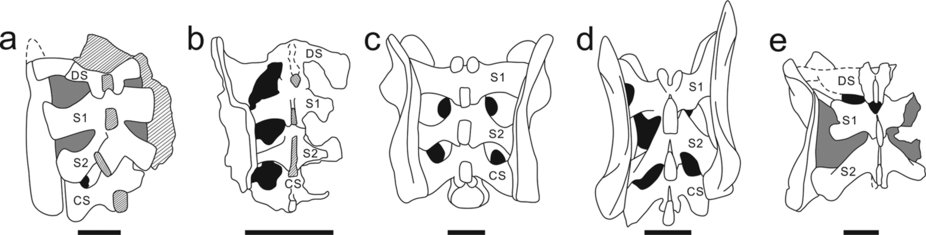 Figure 6: Comparison of sacral vertebrae of Xingxiulong chengi gen. et sp. nov. and other basal sauropodomorphs (in dorsal view). (a) Xingxiulong chengi (four sacrals; LFGT-D0002). (b) Leonerasaurus taquetrensis, a relatively derived non-sauropodan sauropodiform (four sacrals; MPEF-PV 1663, redrawn from Pol et al.29). (c) Plateosaurus engelhardti, a non-massopod sauropodomorph (three sacrals; the holotype UEN 552, redrawn from Galton43). (d) Plateosaurus trossingensis, a non-massopod sauropodomorph (three sacrals; the holotype SMNS 13200, redrawn from Galton43). (e) Efraasia minor, a non-massopod sauropodomorph (three sacrals; SMNS 17028, redrawn from Yates44). Dashed lines represent reconstruction, slash lines represent damage, black fills represent voids within the sacrum, and grey fills represent matrix. Abbreviations: DS: dorsosacral; S1 and S2: two primordial sacrals; CS: caudosacral. Scale bars equal 10 cm.